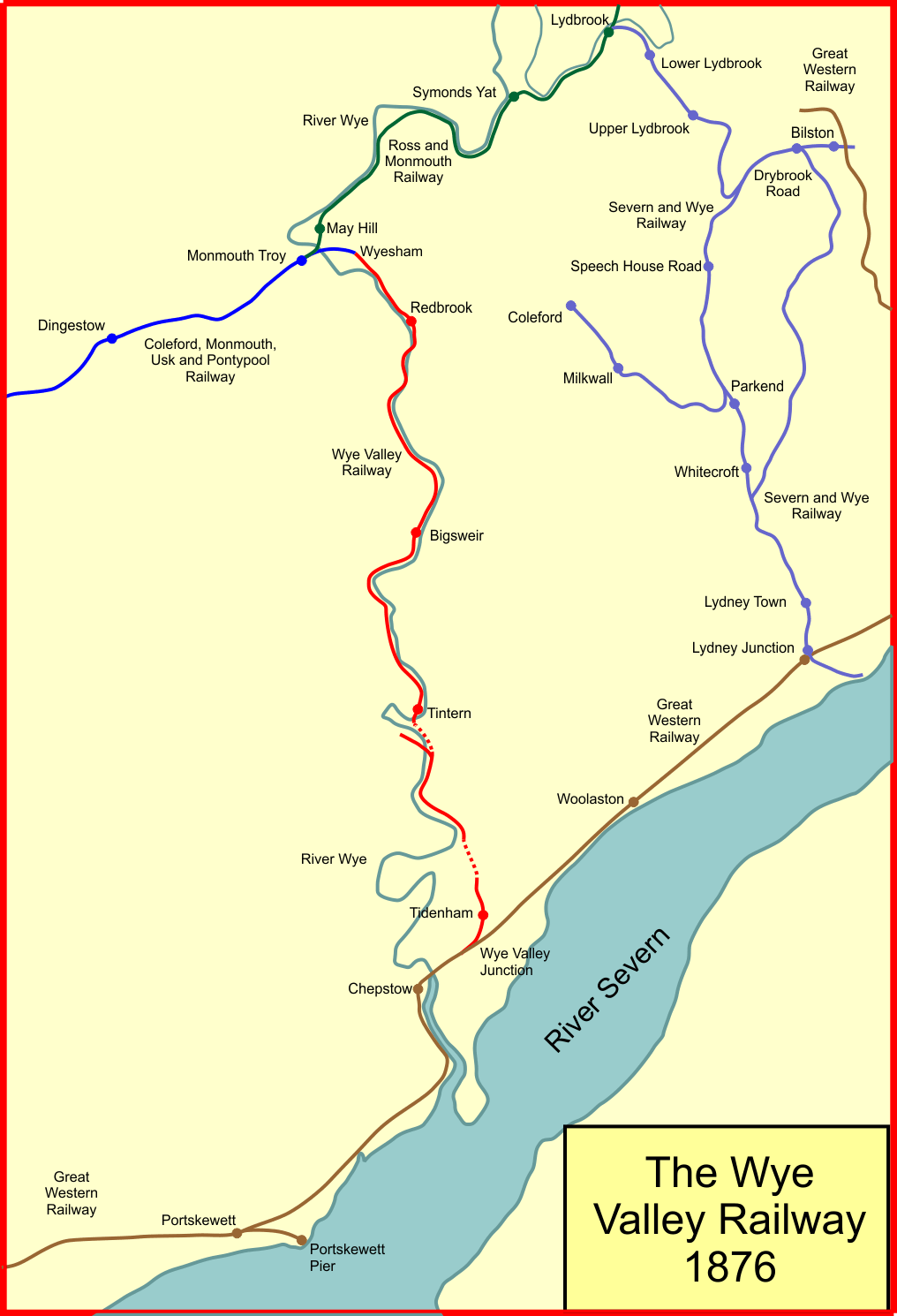 System map of the Wye Valley Railway, Gloucestershire, England in 1876